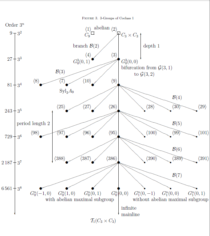 This diagram shows the tree of finite 3-groups of coclass 1, i.e., of maximal class, and the isolated vertex C(9). Important vertices are labelled with their SmallGroups Library identifier in angle brackets.